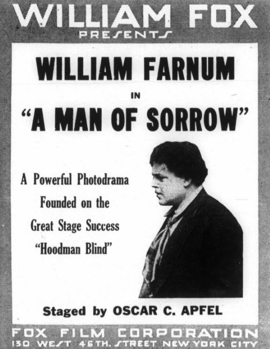 Advertisement for the American drama film A Man of Sorrow (1916) with William Farnum, on page 29 of the April 21, 1916 Variety.